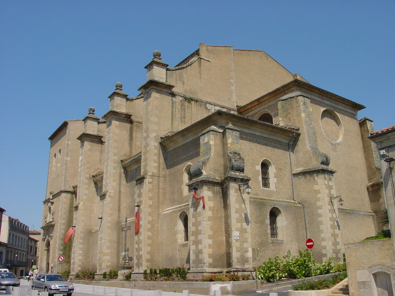 Castres cathedral (chevet